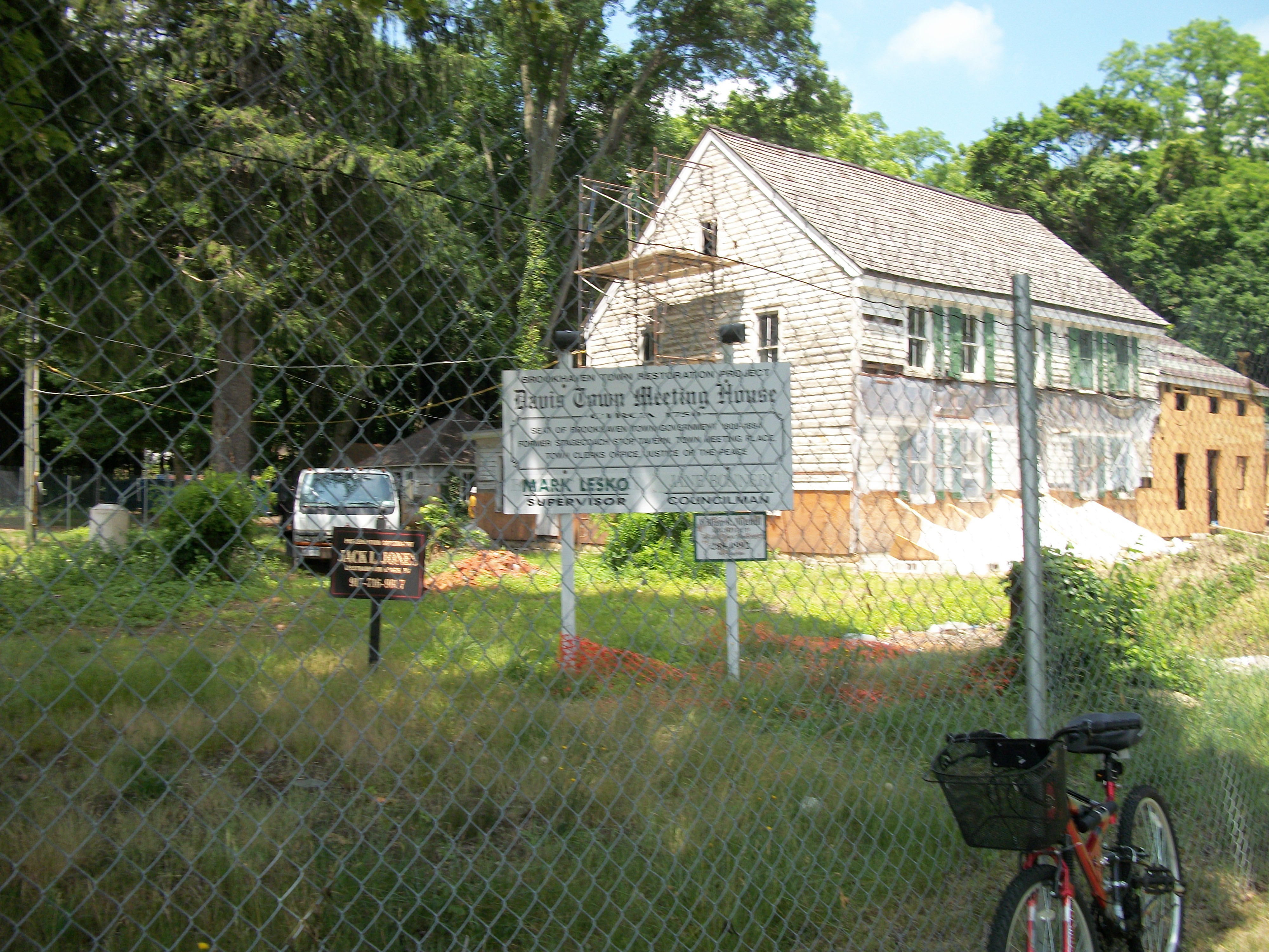 The historic Davis Town Meeting House on the corner of Coram-Mount Sinai Road and Middle Country Road in Coram, New York undergoing restoration and reconstruction.